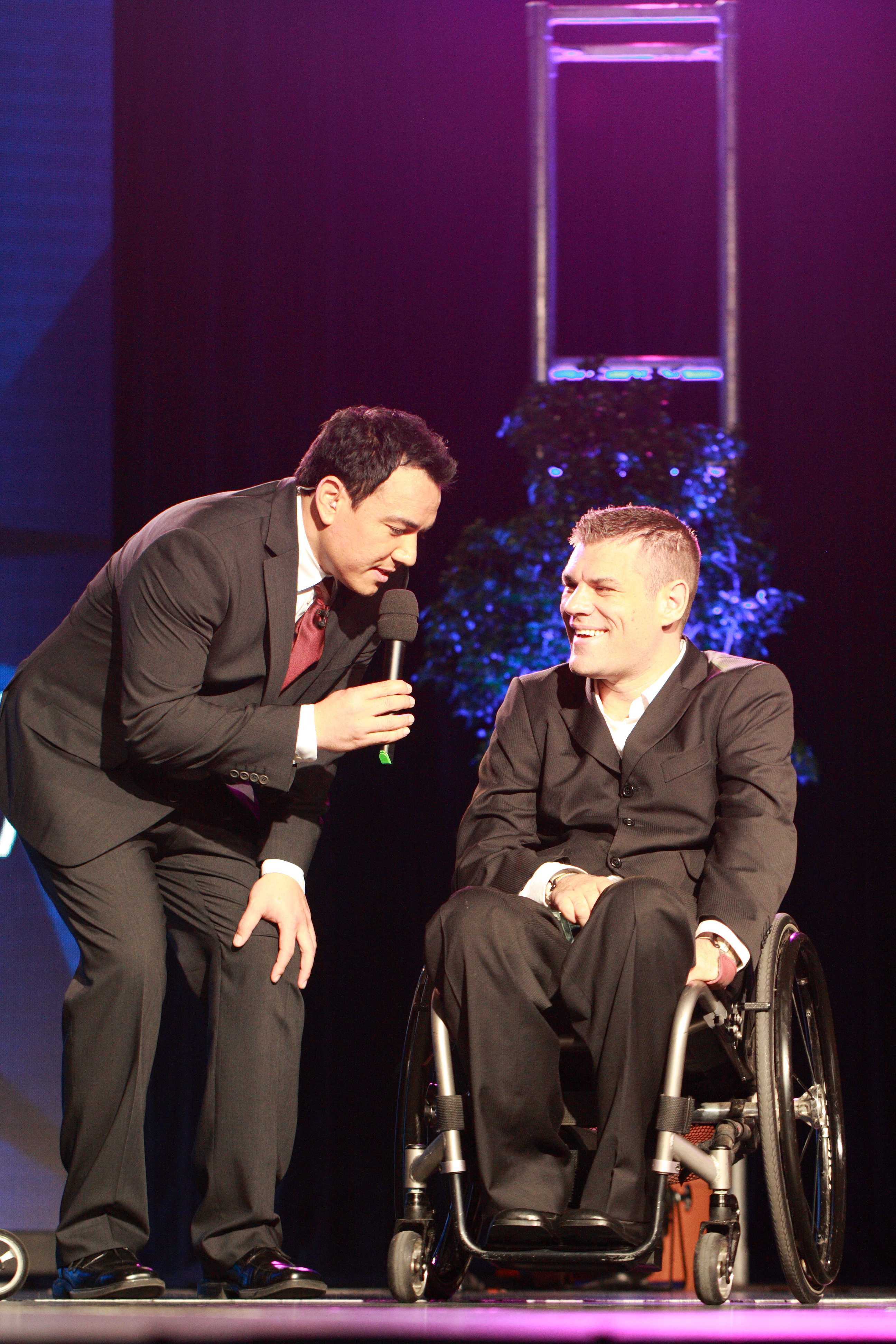 Australian Paralympian of the Year 2012 ceremony at the Hordern Pavilion, Sydney, Australia.